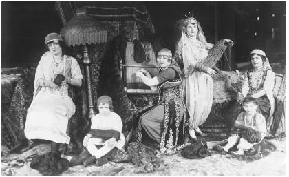 Armenian immigrants from the first wave of Armenians immigration to the US. From 1890-1914, 64,000 Turkish Armenians fled to the US. These tradtional rug weavers travelled around the country diplaying their ancient talent.